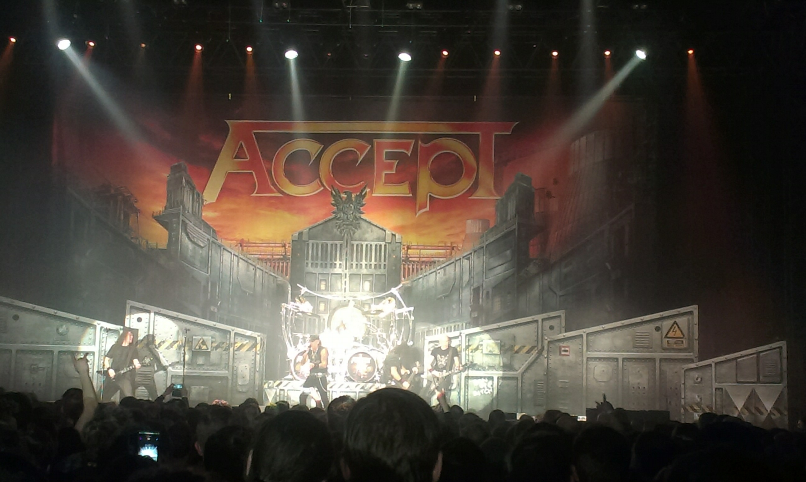 Accept, Prague, 4. 3. 2017